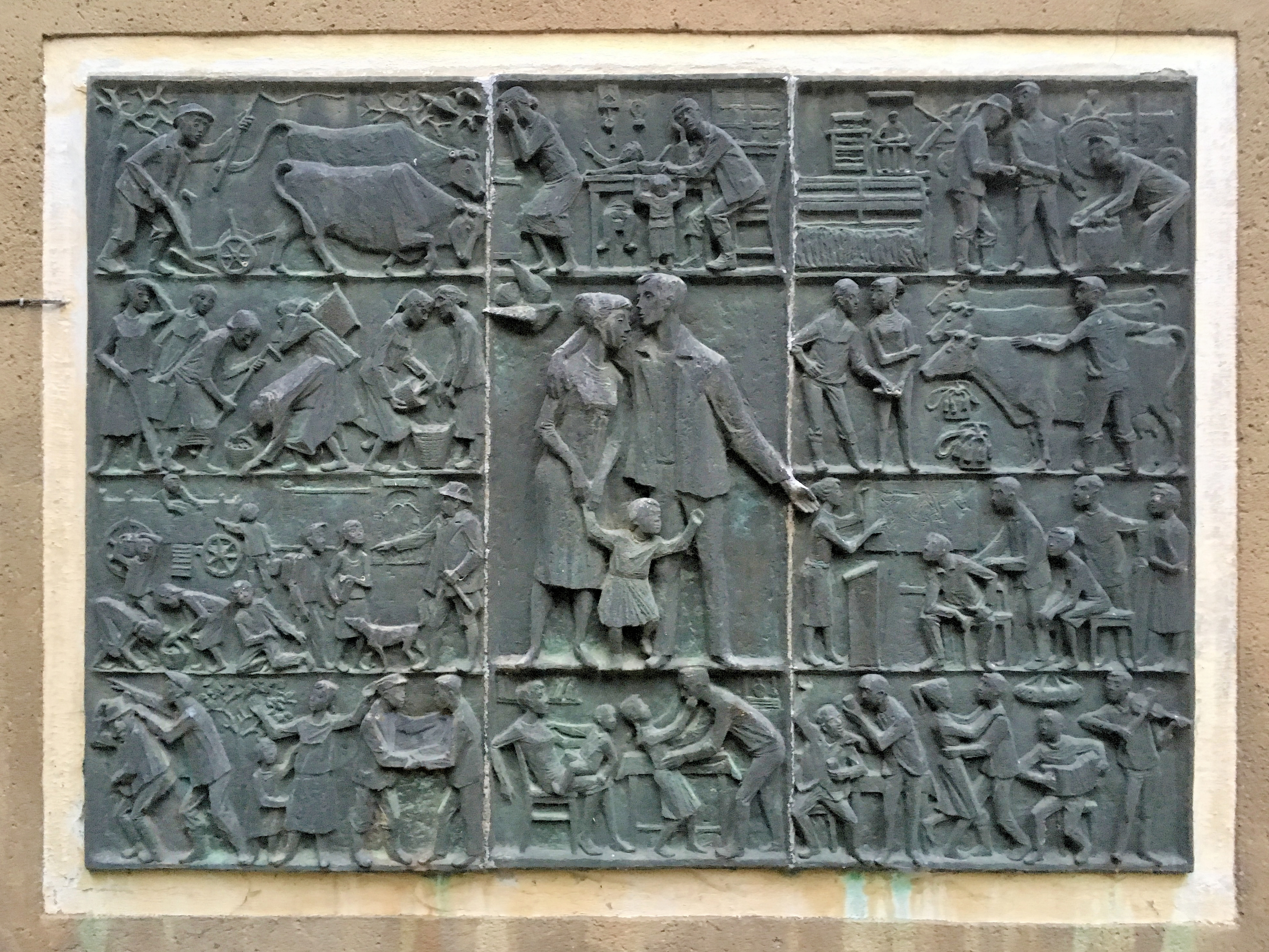 Wall relief at the castle of Trossin, a Baroque building with three-axis avant-corps and corner pavilions with hipped roof. The former manor with park is of importance for building and local history as well as landscaping; Cultural Monument, Address: Unter den Linden 1-2. Single monument: Relief panel by Bruno Kubas from 1970/80: Cycle 'Leben und Arbeiten' (Living and Working) from 11 rectangular fields with motives of work and the family before and in socialism as well as representation of the expulsion of the landowner.